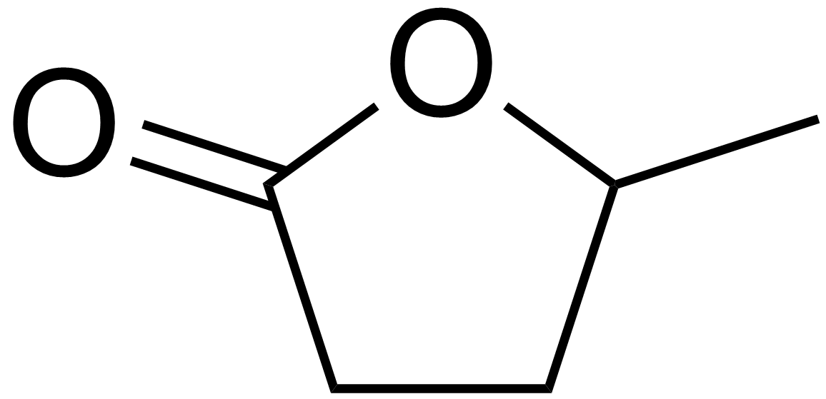 chemical structure of gamma-valerolactone